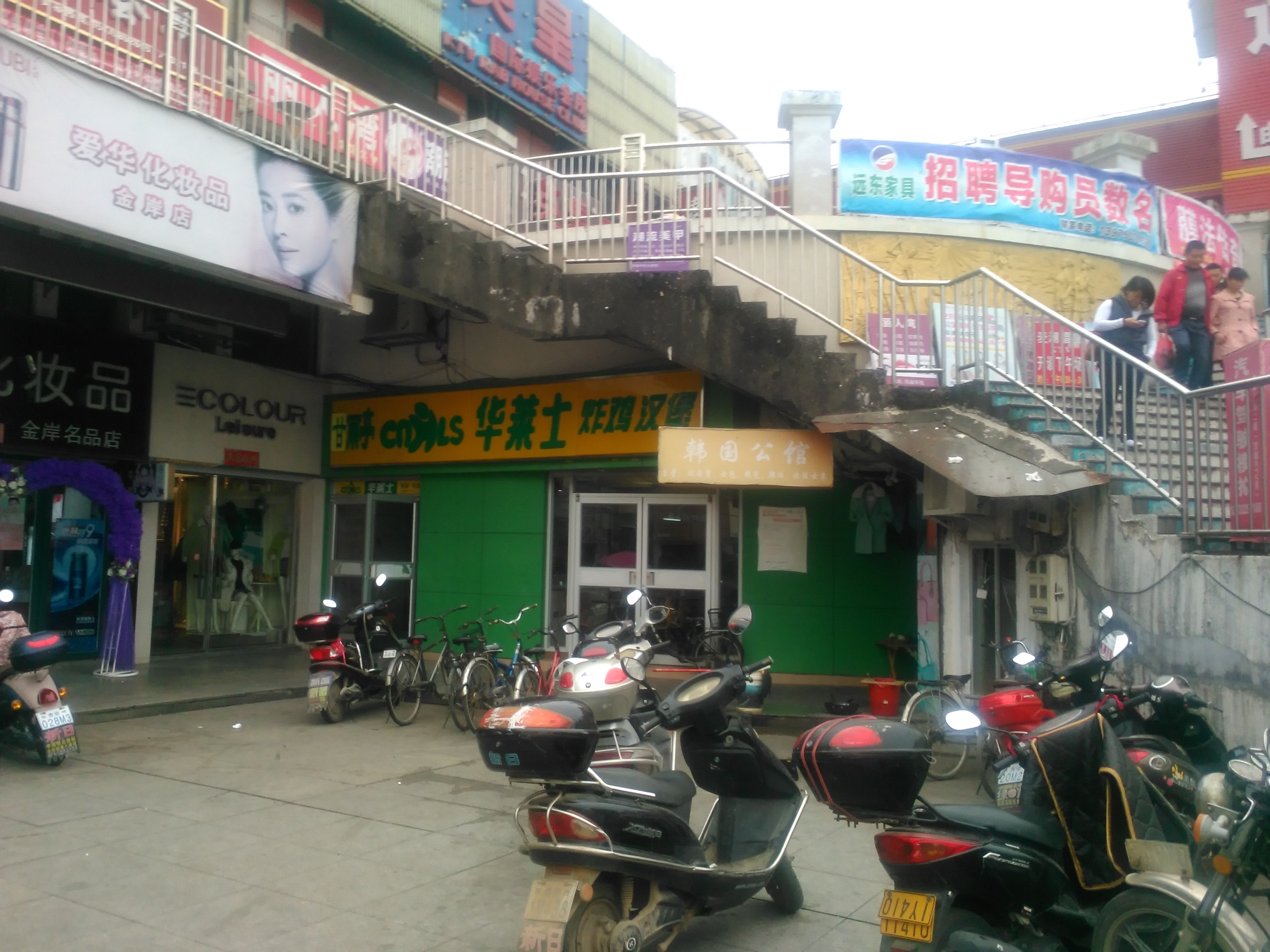 CNHLS in Anfu County, Jiangxi